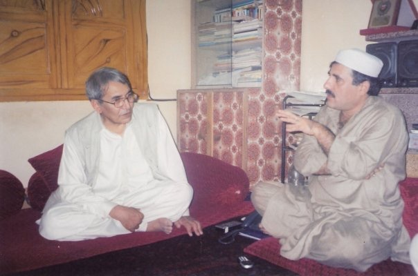 Gulzaar Alam with the talented writer Kabir Stori.